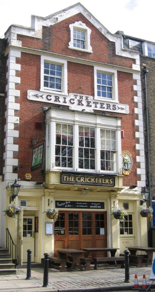 The Cricketers, The Green, Richmond, London, UK (51.460555°N, 0.306278°W)